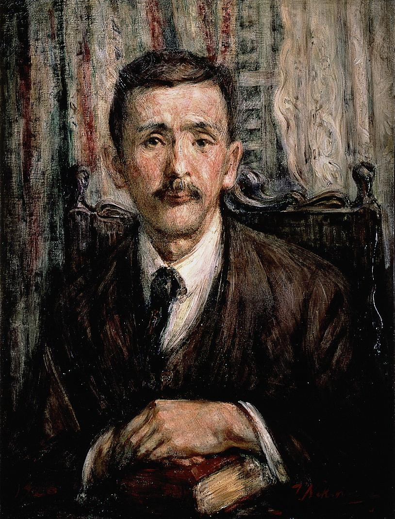 Portrait of Sudō Onosaburō